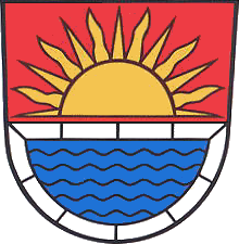 Coat of arms of Sonneborn